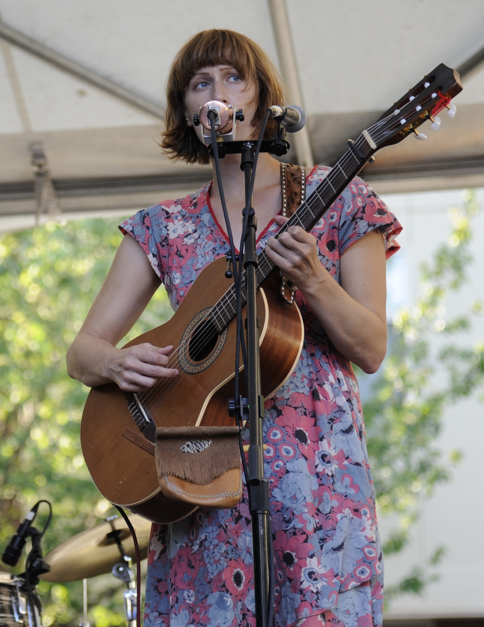 Laura Gibson performing at the Sundown Concert Series, Portland, Oregon, 2012